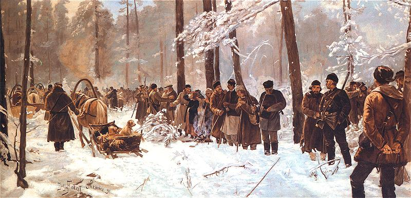 Hunting in Nieśwież, watercolor, 83 x 116 cm, The National Museum in Warsaw